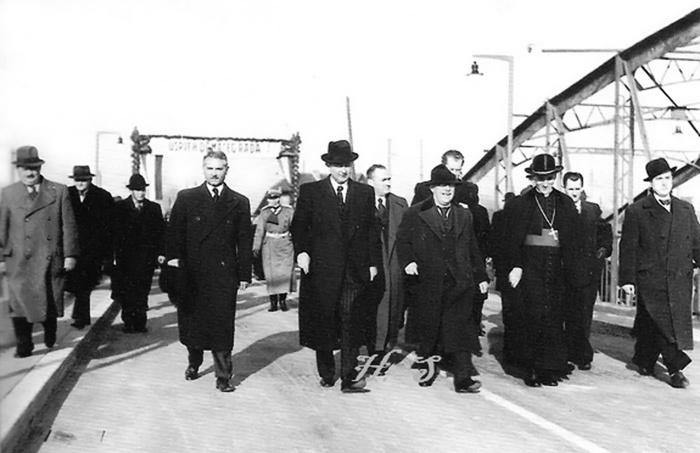 Croatian Ban Ivan Šubašić, HSS president Vladko Maček and Zagreb's archbishop Stepinac on openin of the new bridge in Zagreb, december 1939.